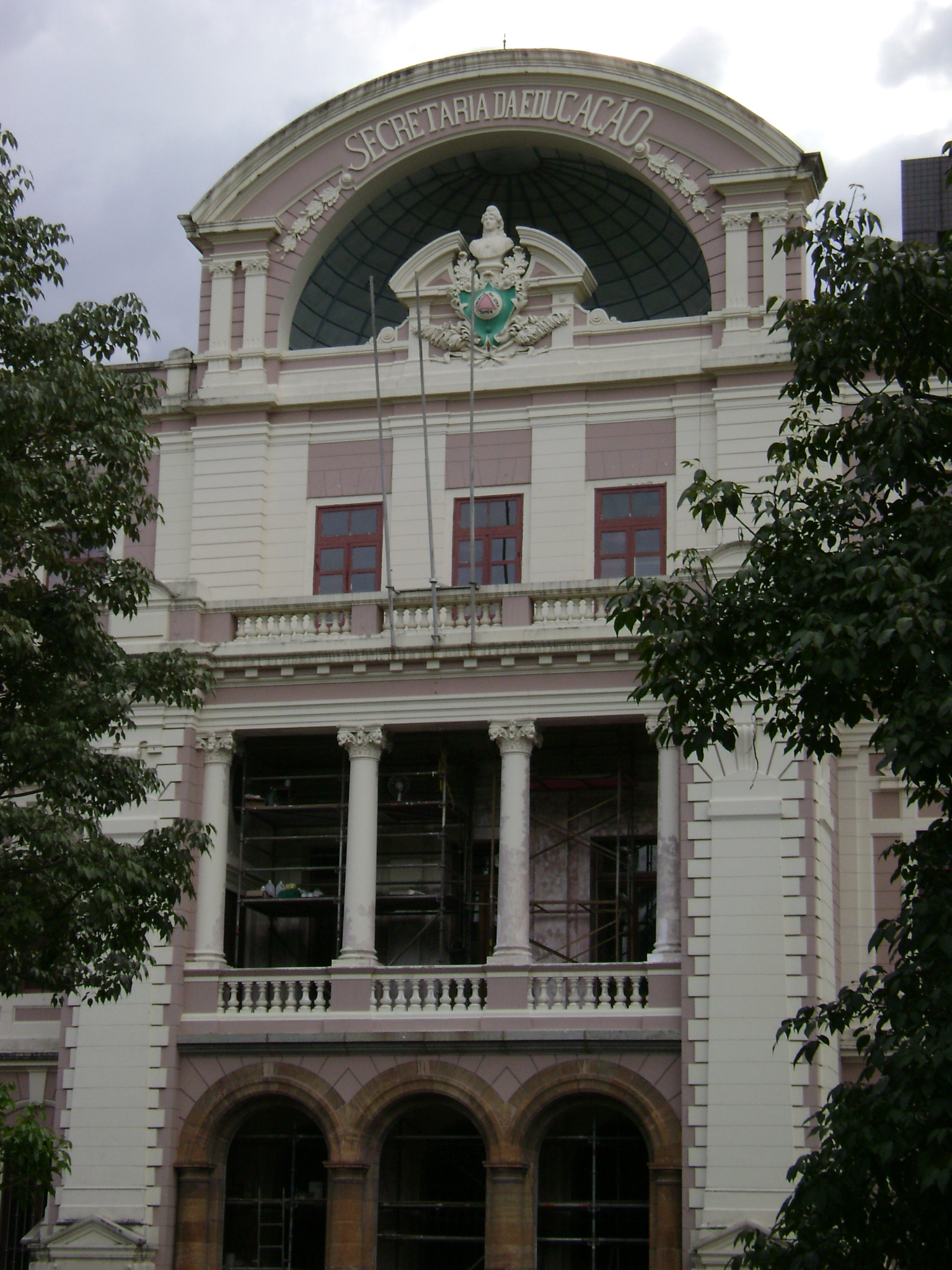 Secretaria da Educação, em Belo Horizonte.